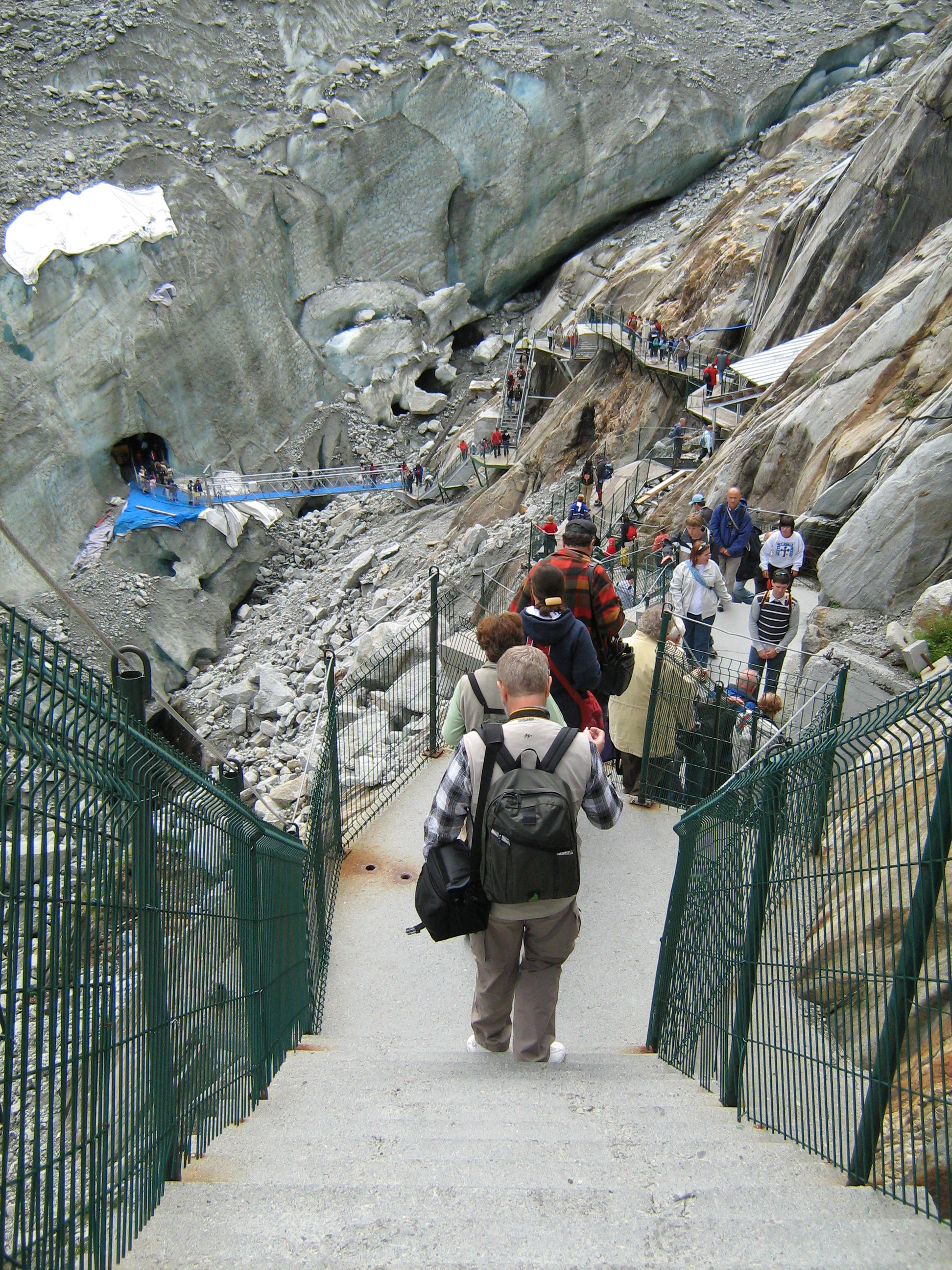 Down the mountain to the ice cave in Mer de Glace. August 2007.